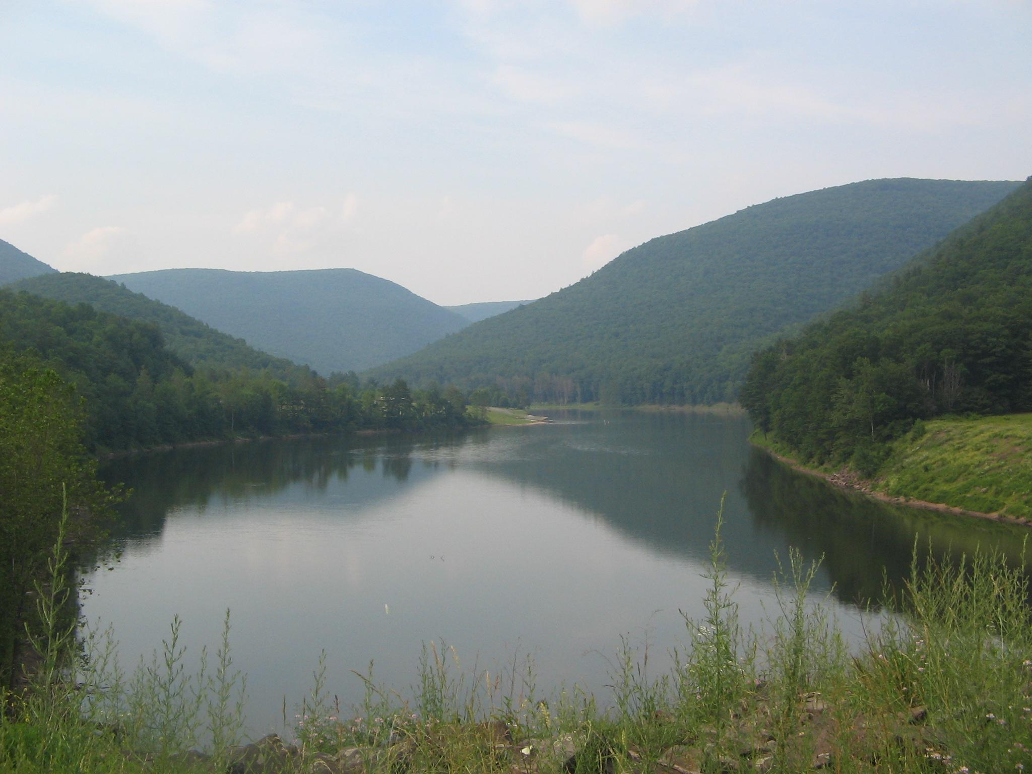 Little Pine Creek Lake from the Dam, at Little Pine State Park, Lycoming County, Pennsylvania, USA